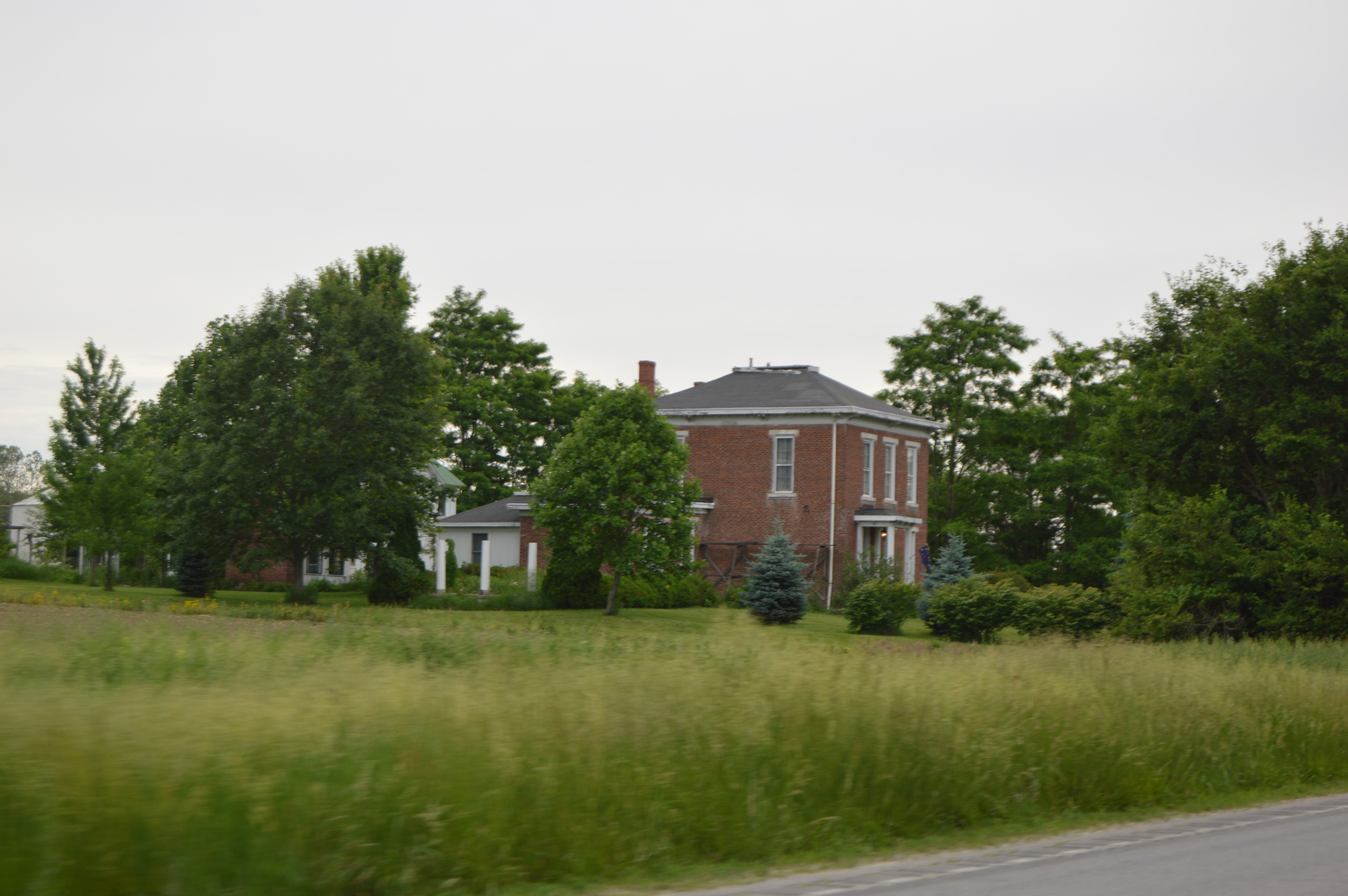 Roadside view of the Simpson-Breedlove House, located at 3650 S. U.S. Route 421 (the Michigan Road in Union Township, Boone County, Indiana, United States. Built in 1865, it is listed on the National Register of Historic Places.